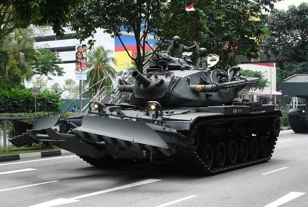 M728 Combat Engineer Vehicle (CEV) of Singapore Army, part of Singapore's National Day Parade (NDP) mobile column forming up along Nicoll Highway towards the Padang.